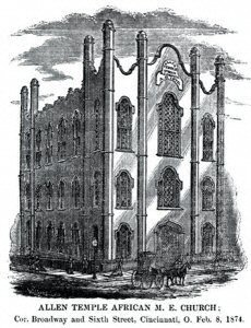 19th-century print of Allen Temple AME church in Cincinnati, Ohio, USA, originally Bene Israel Synagogue